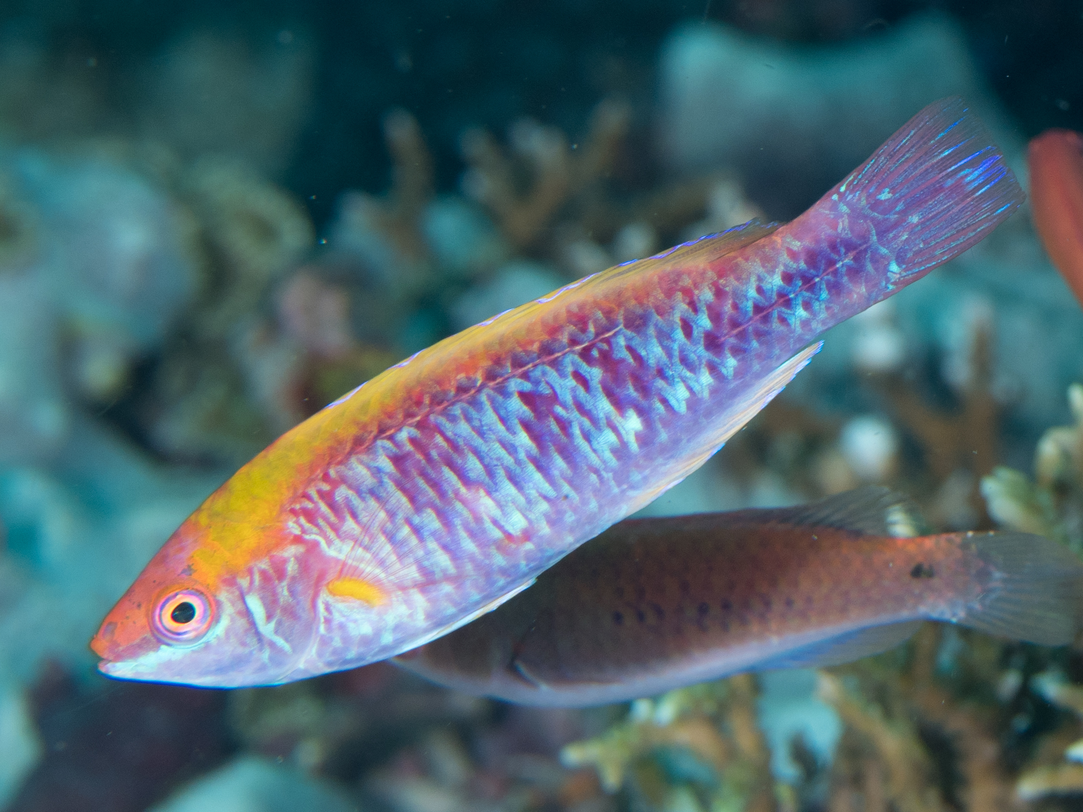 Yellowback fairy wrasse (Cirrhilabrus lubbocki). Raja Ampat